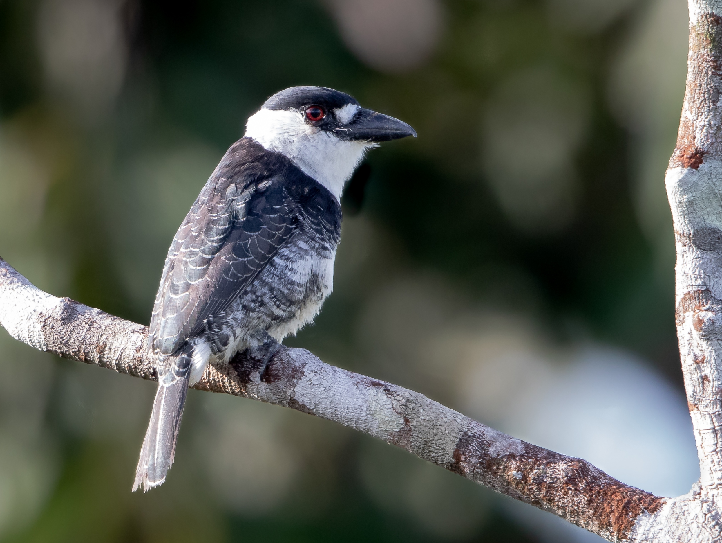 Guianan puffbird; Manaus, Amazonas, Brazil